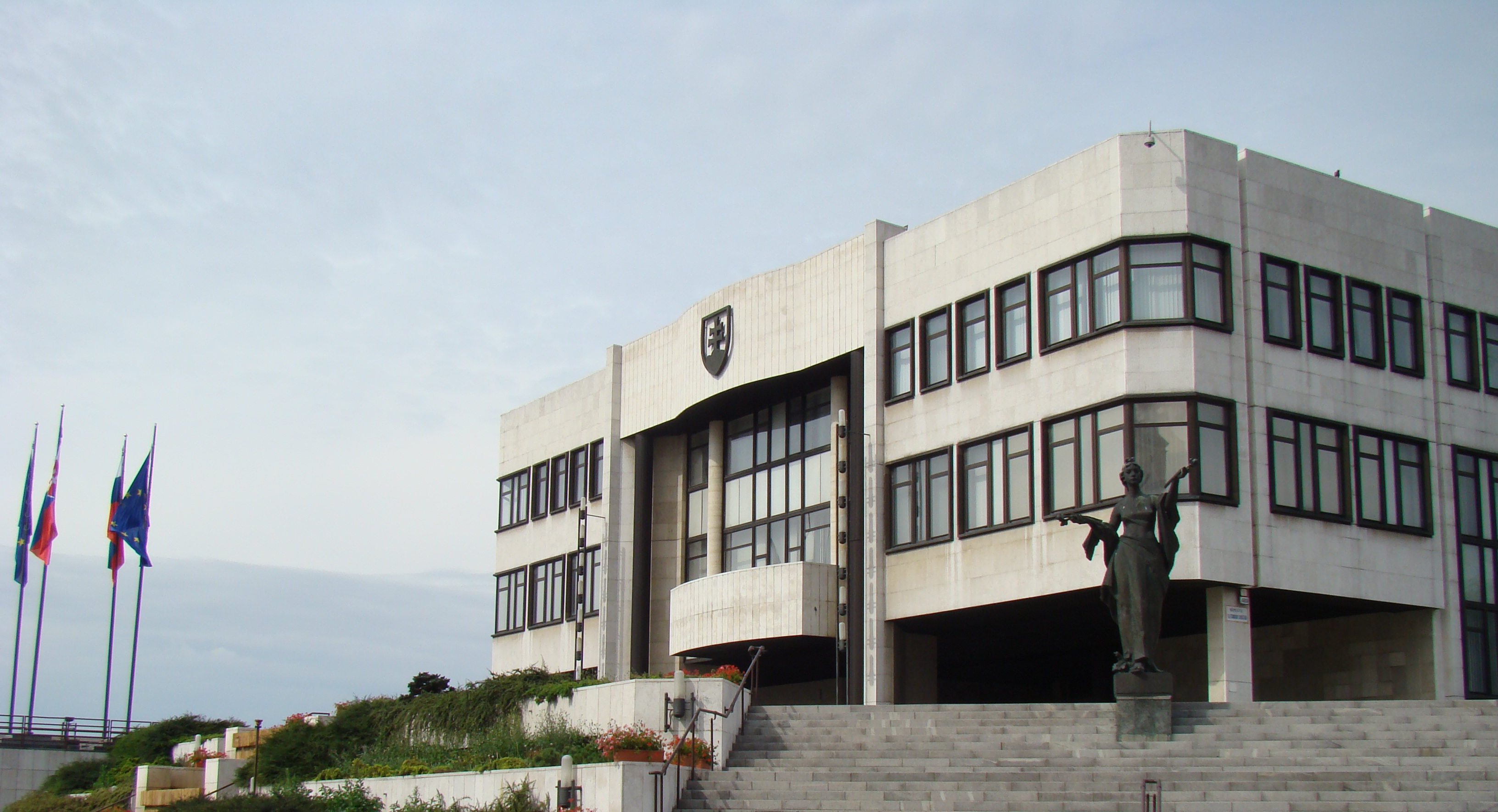 The house of the Slowakian parliament